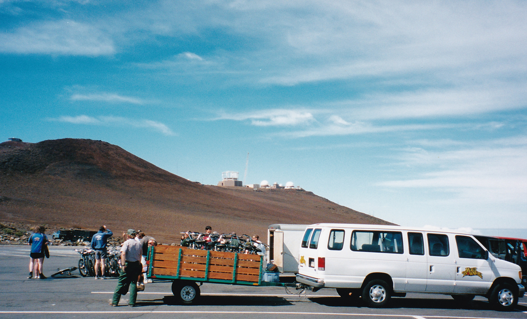 Haleakala Observatory 04/25/1997